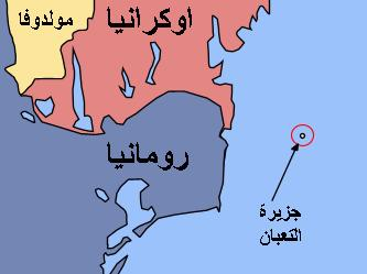 Snake Island Location Map Modern Egyptian Version